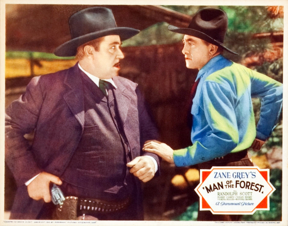 Lobby card for the American film Man of the Forest (1933), directed by Henry Hathaway.